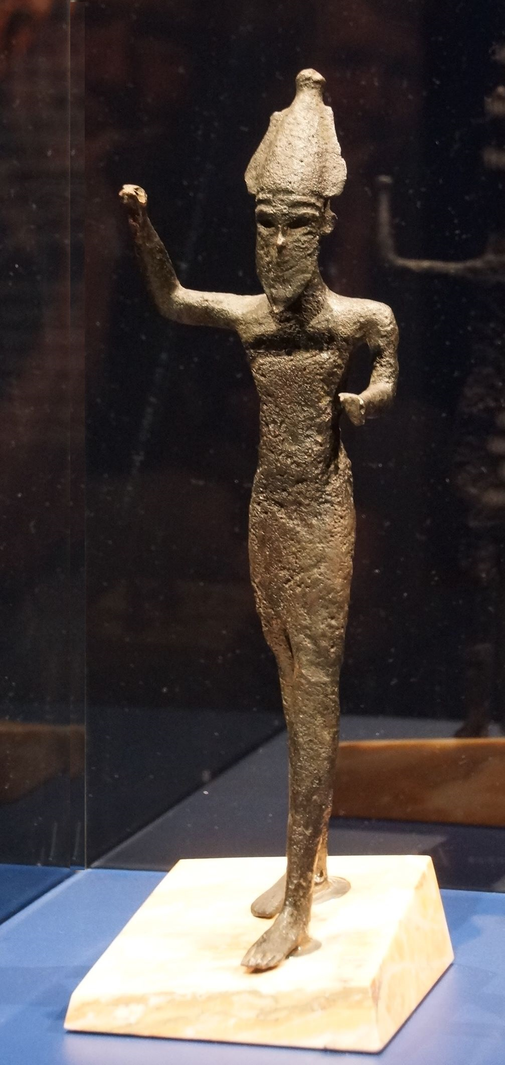 Phoenician statuette probably depicting Reshef, the Phoenician god of storms and war. Museo Archeologico Regionale 'Antonio Salinas', Palermo, Inv. No. 3676. Exhibited in January 2016 in the Allard Pierson Museum, Amsterdam.